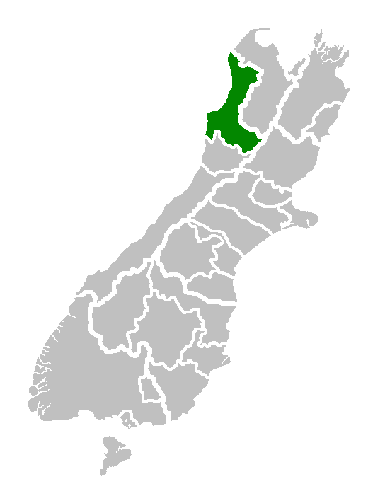 Location of Buller District, New Zealand